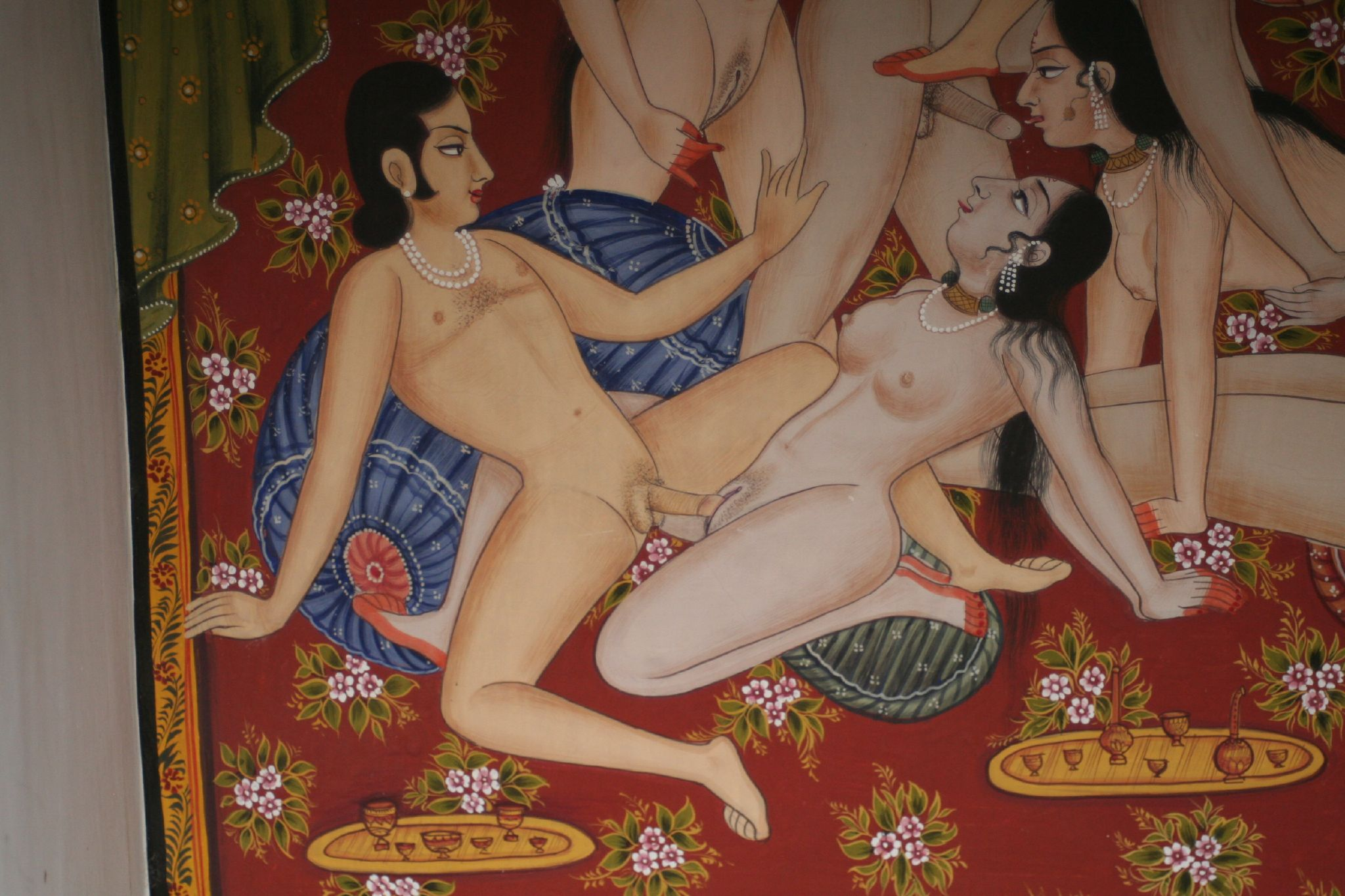 One of a series of paintings of the Karma Sutra at Kuchaman Fort.Karma Sutra, Kuchaman Fort